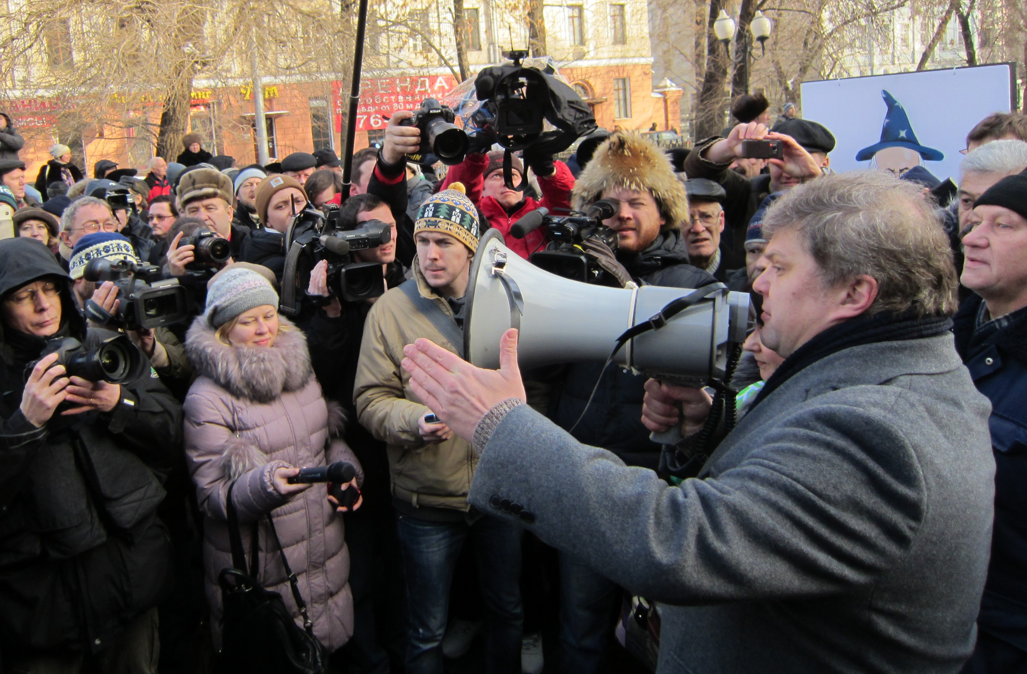 Sergey Mitrokhin speaks at Yabloko Party meeting at Chistoprudny Boulevard